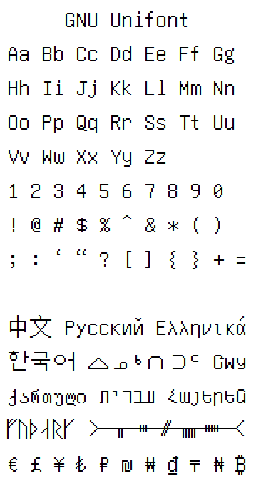 A sample of characters from GNU Unifont, version 11.0.03, including writing samples from 11 scripts and various currency symbols.